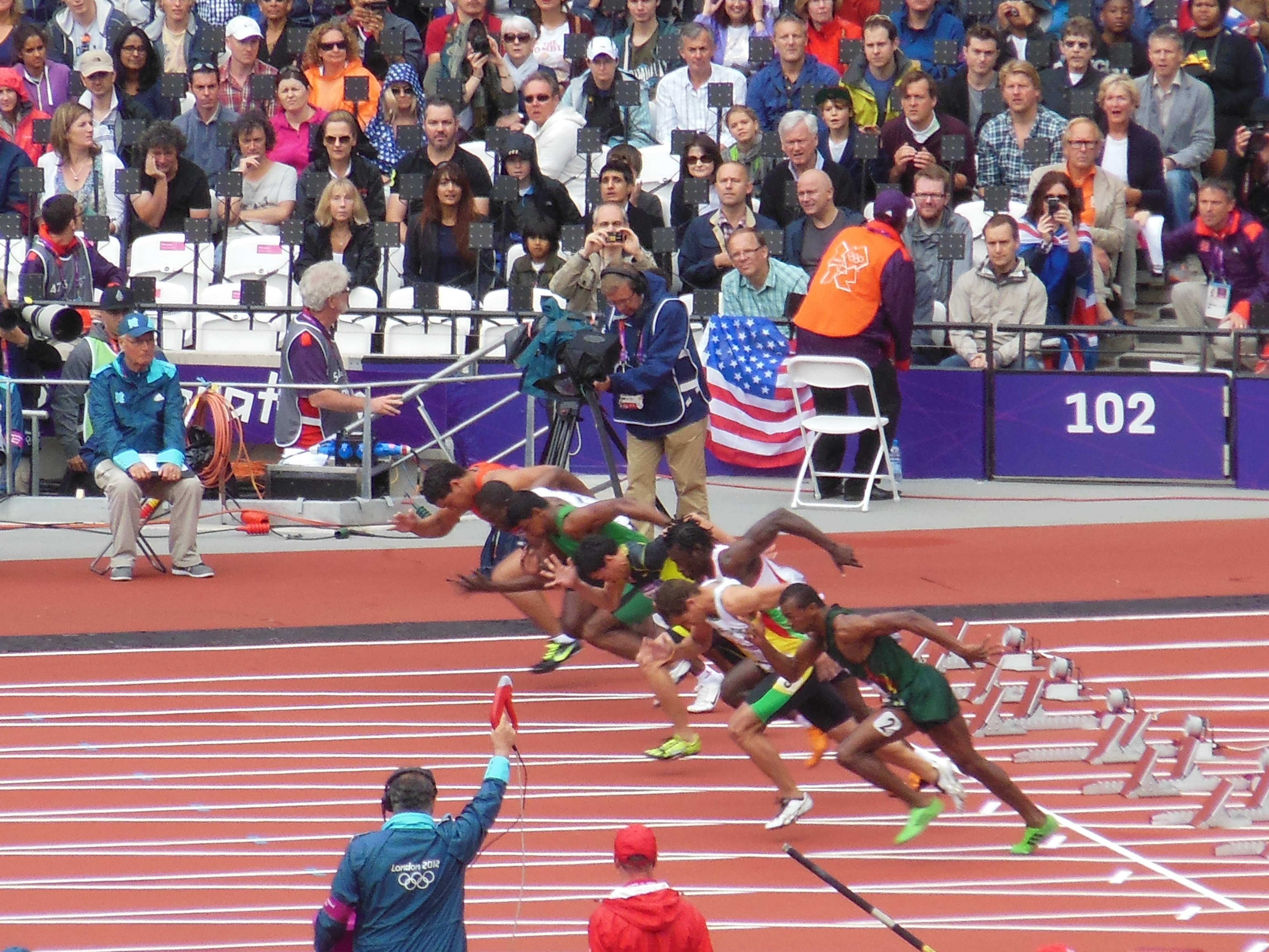 Athletics at the 2012 Summer Olympics – Men's 100 metres, Preliminaries heat 1: Lane 2, dark green: Christopher Lima da Costa (São Tomé and Príncipe). Lane 3, white shirt: Artur Bruno Rojas (Bolivia). Lane 4, white shirt: Holder da Silva (Guinea-Bissau). Lane 5, black/yellow: Kilakone Siphonexay (Laos). Lane 6, green shirt: Mohan Khan (Bangladesh). Lane 7, white shirt: Devilert Arsene Kimbembe (Republic of Congo, winner of the heat). Lane 8, red shirt: Joseph Andy Lui (Tonga).